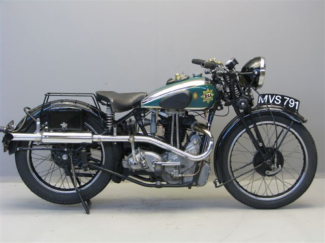 BSA Empire Star 500 cc single cilinder OHV motorcycle from 1936